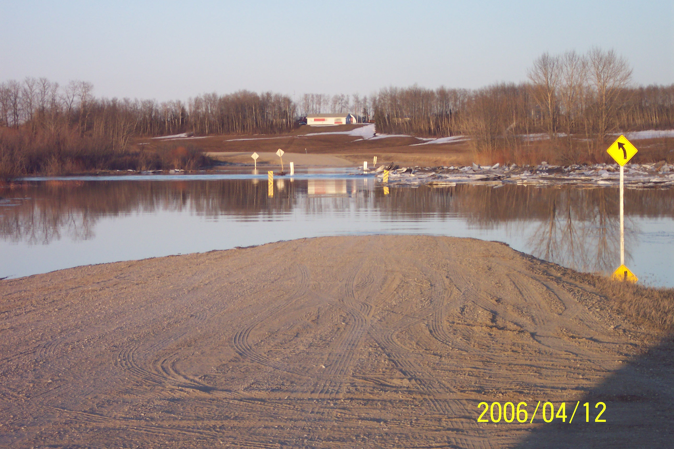 Photo taken by Brock Irvine (my father) of the Carrot River (River) east of the Town of Carrot River. I ask if this is used else where full credit to my father and I be given.